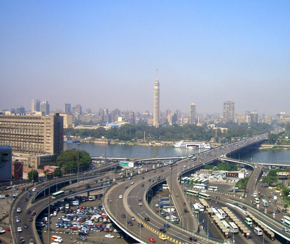 taken from a building near Ramses Station